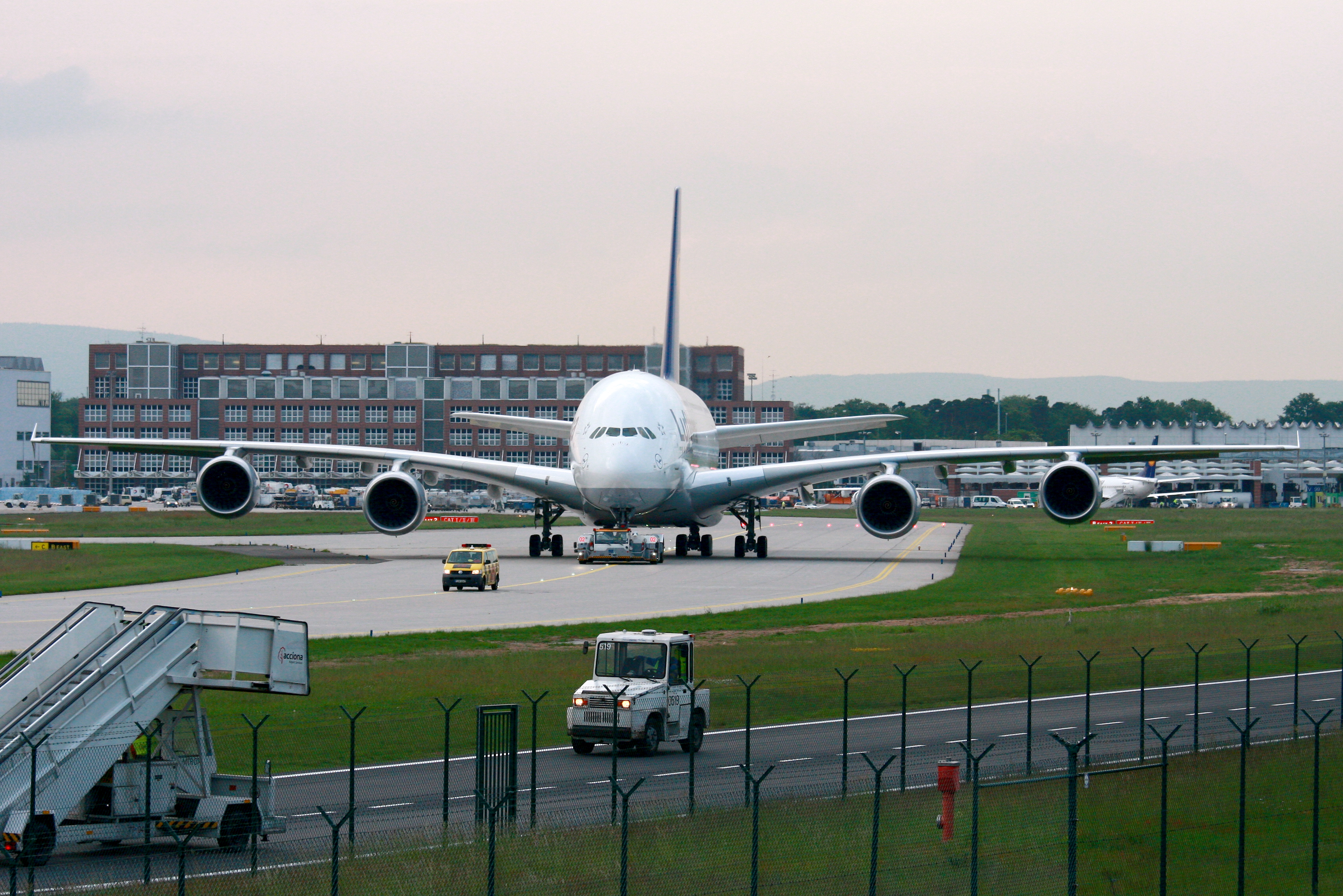 Lufthansa's first Airbus A380 at Frankfurt Airport